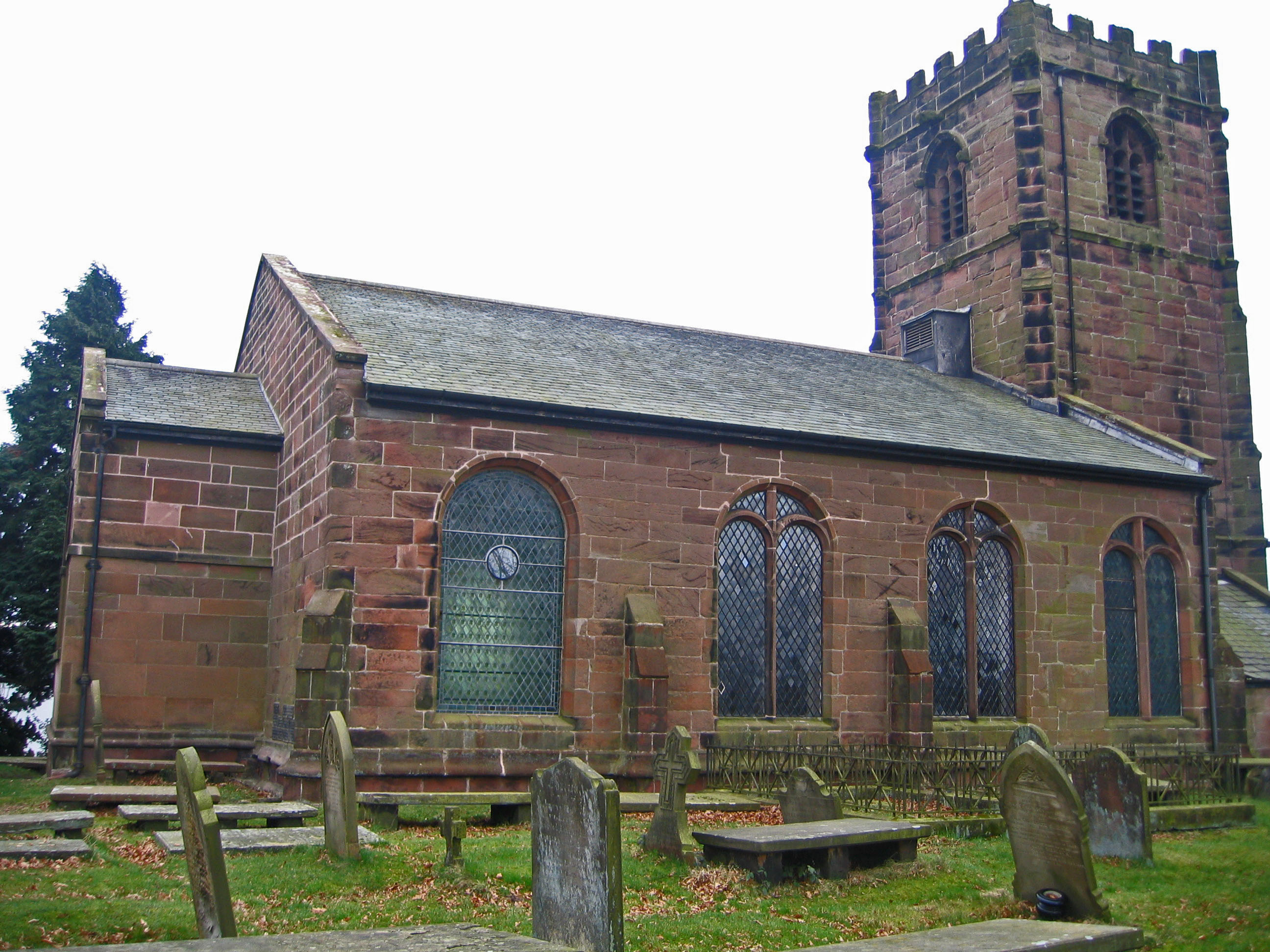 Photograph of the church from the north